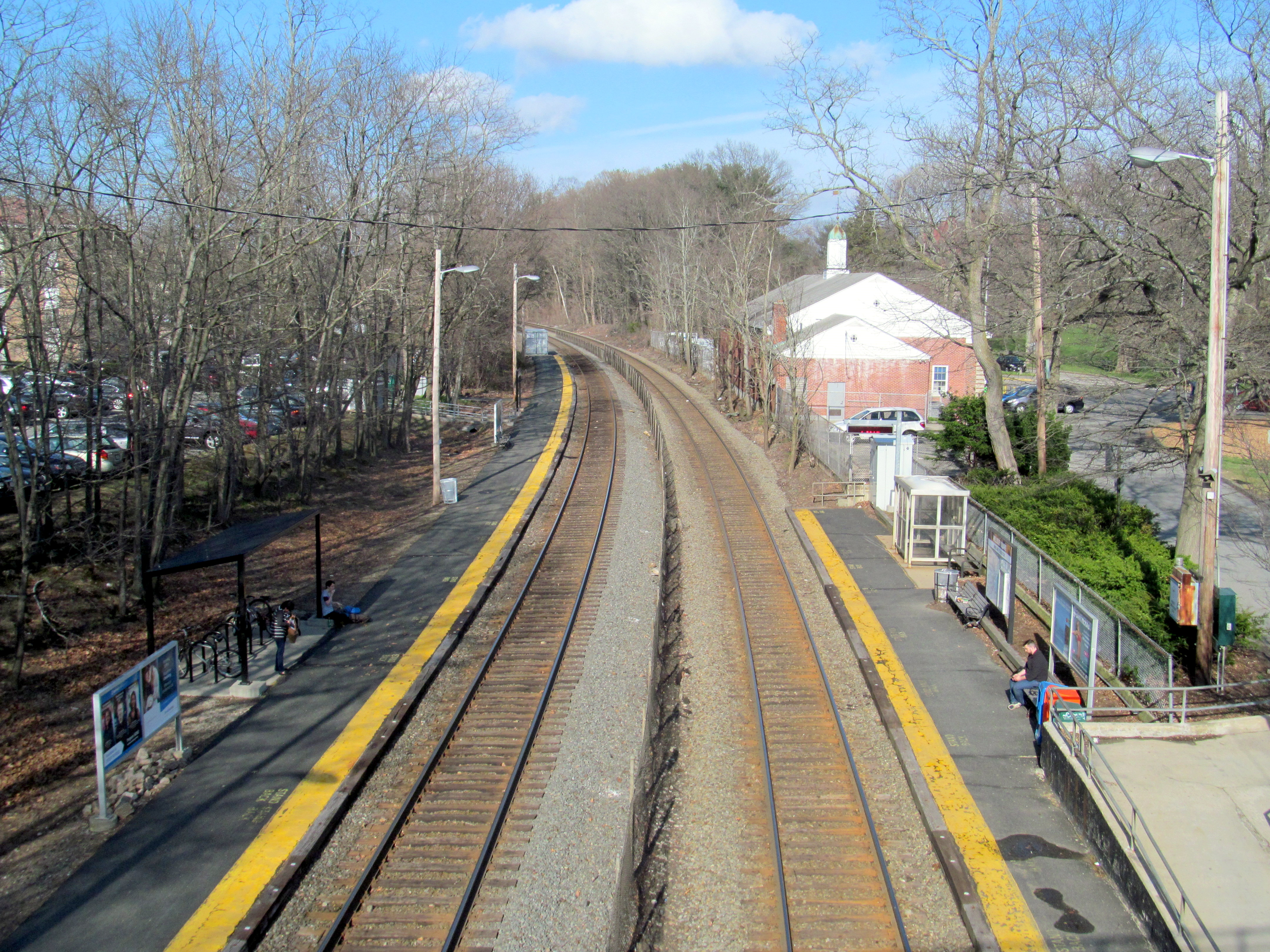 Wellesley Square station in April 2016